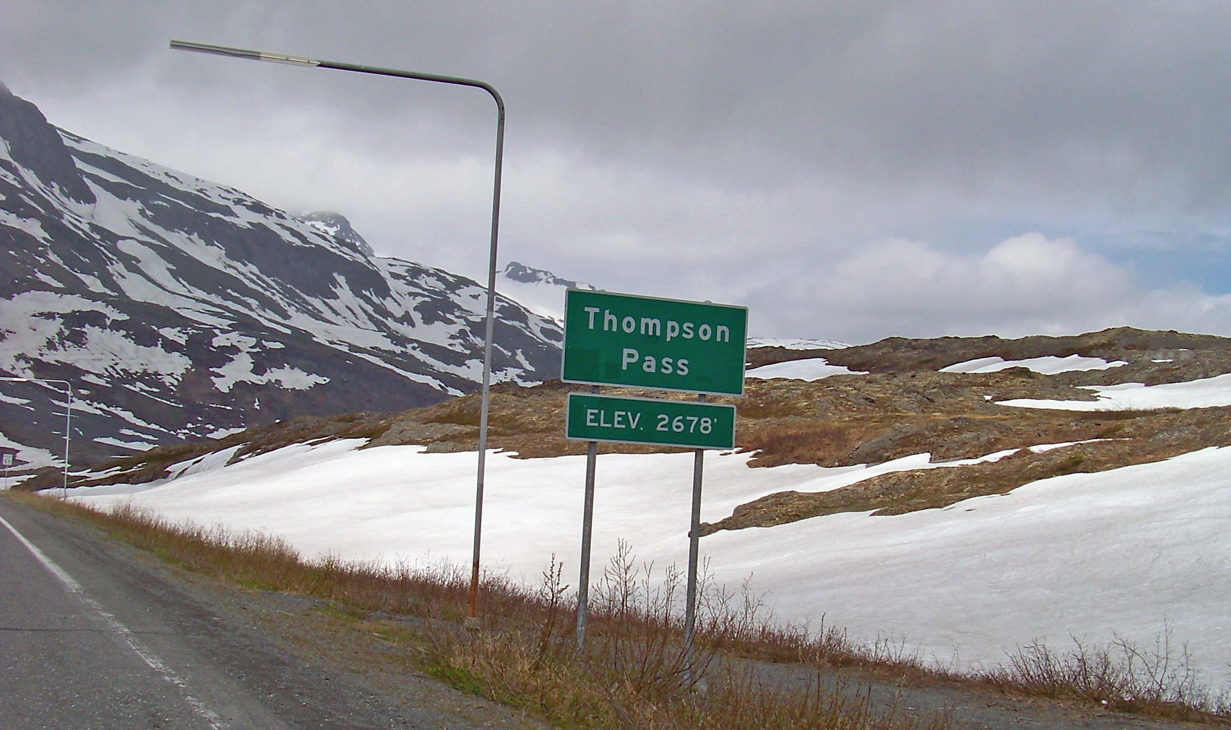 Thompson Pass, Alaska, as seen from the Richardson Highway in late May, 2009.